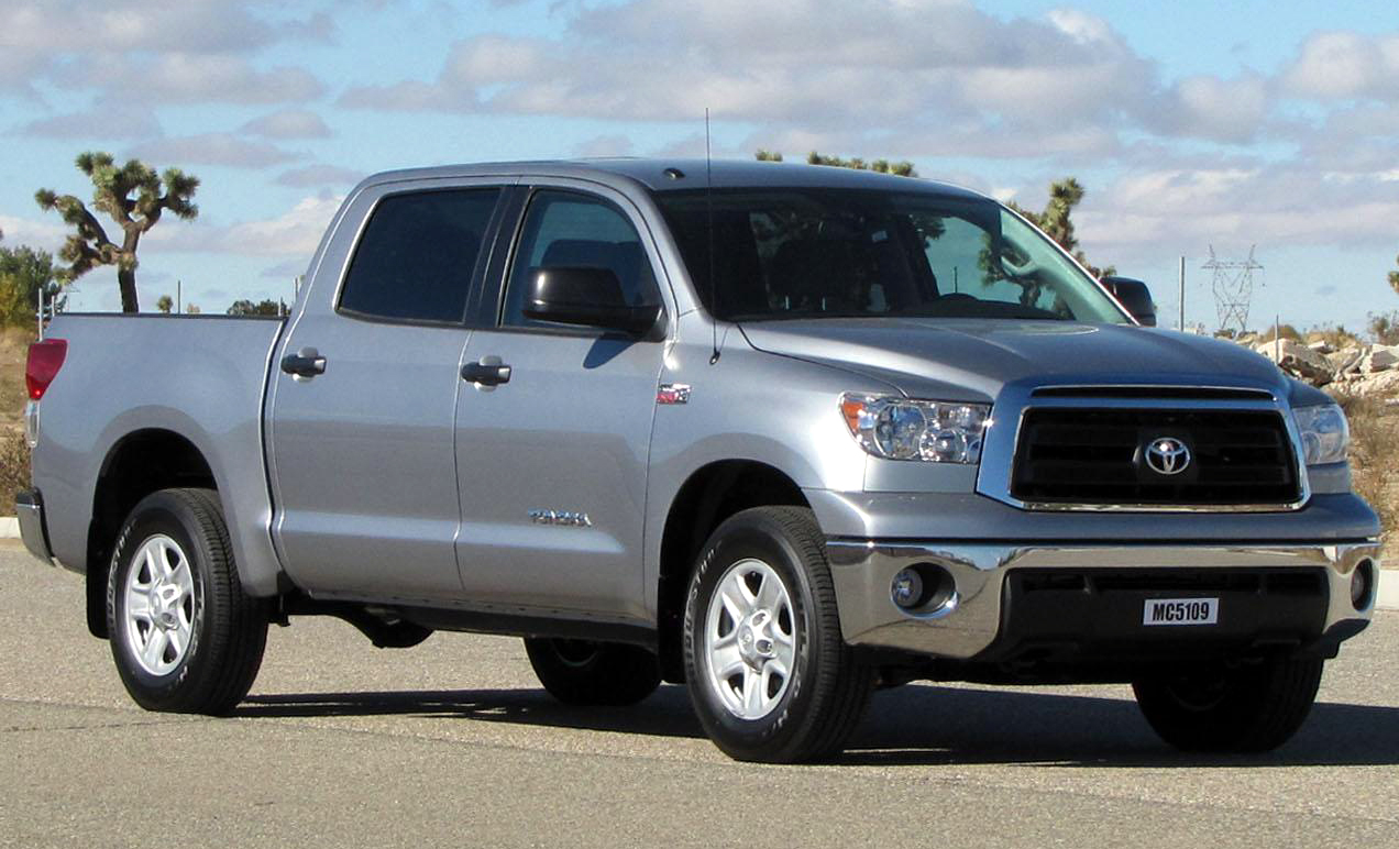 2012 Toyota Tundra Crewmax photographed in USA.